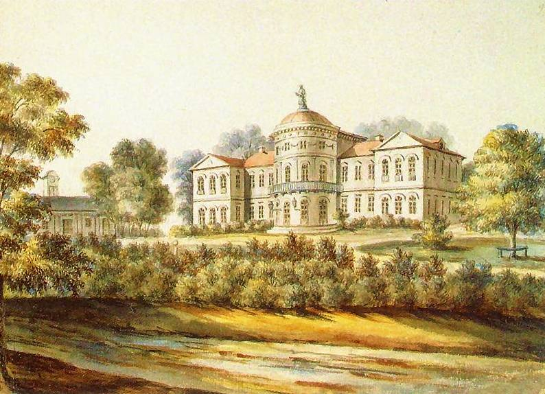 Komar Palace in Bejsagoła, Napoleon Orda, 1875